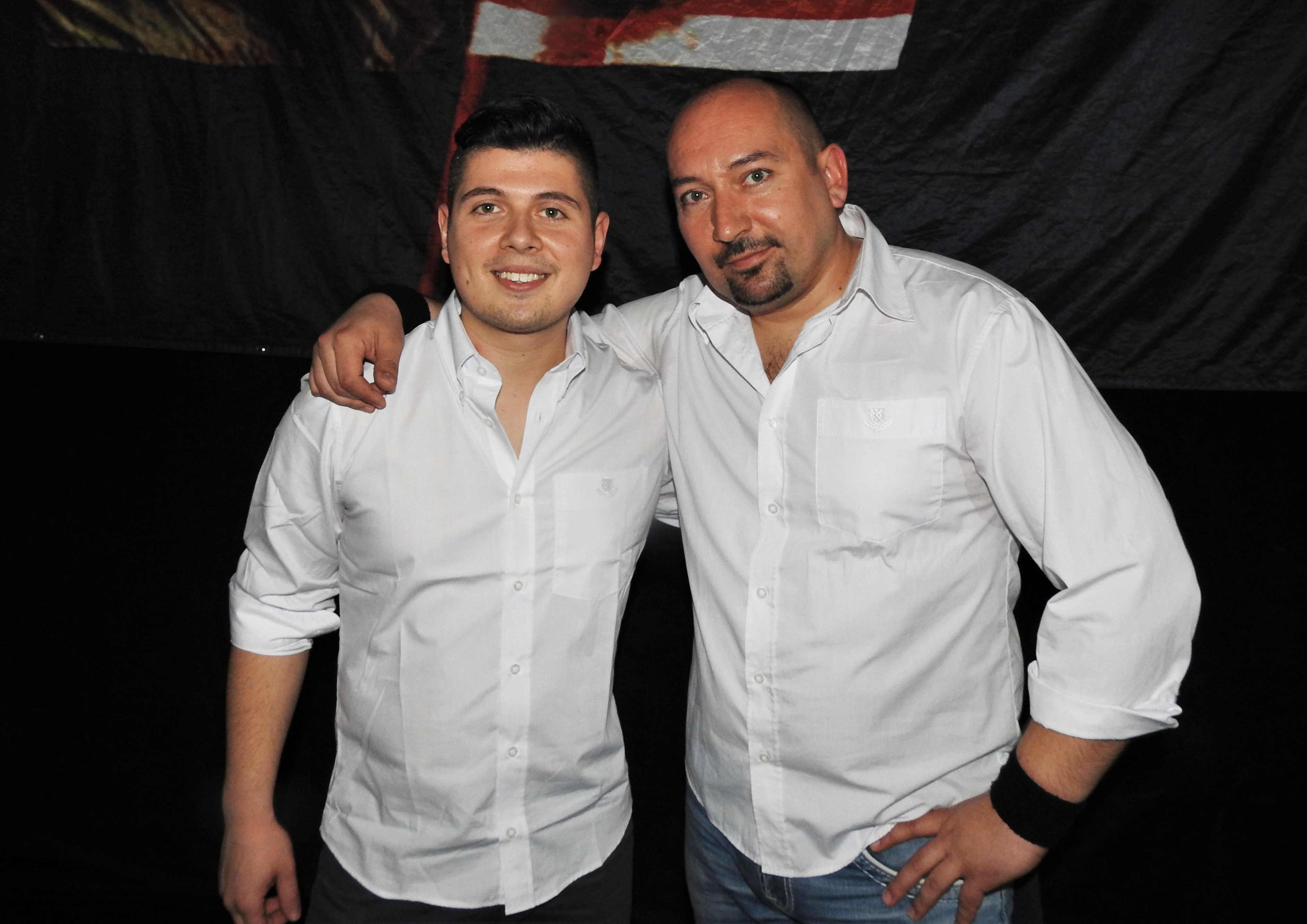 Drummer Dániel Kiss and bassist Barnabás Preidl - Hungarica - Hungarian music group playing mainly national rock, performance at the Provincial Culture Center, March 23, 2019 during the Polish-Hungarian Friendship Days in Kielce. Kielce, March 23, 2019